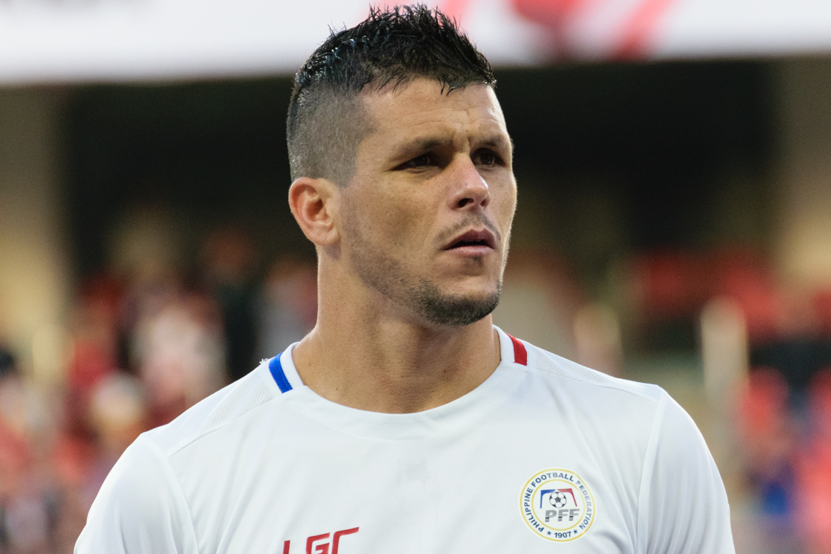 Álvaro Silva at the Asian Cup 2019